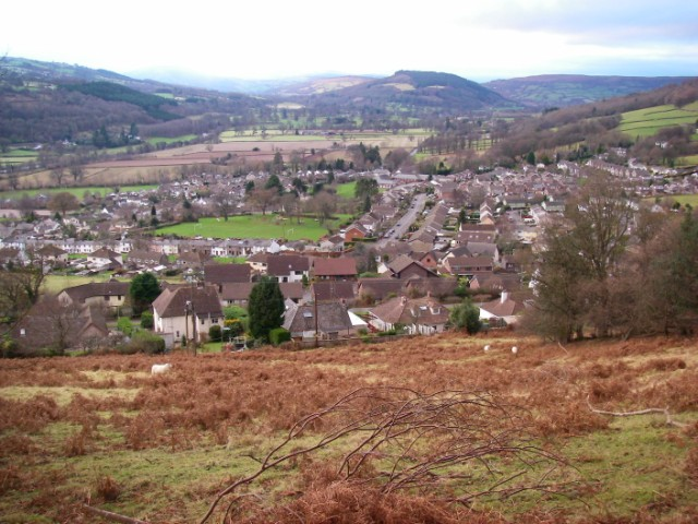 View over Crickhowell from Coed Cefn The 'ridge wood' is now owned and managed by the Woodland Trust and provides an opportunity for local people (and visitors from further afield!) to enjoy the beech and conifer covered top of this Old Red Sandstone hill. The occasional outward views such as this one westward up the Usk valley over a part of Crickhowell are very much to be enjoyed.